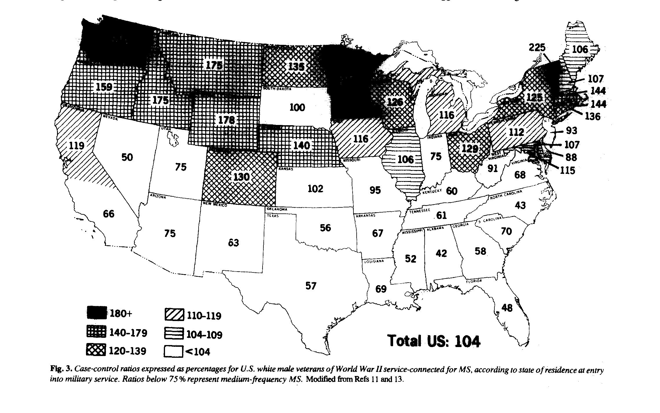 Map of MS distribution in the USA in 1983 by John Kurtzke, Veteran Administration.